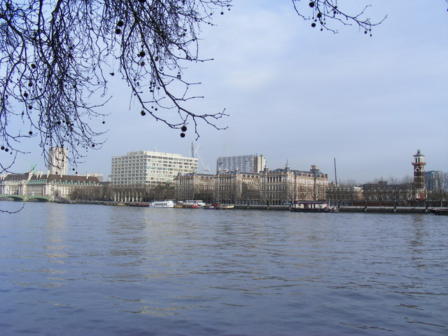 St Thomas' Hospital from Victoria Tower Gardens On the left of this picture is the former GLC building 'County Hall'